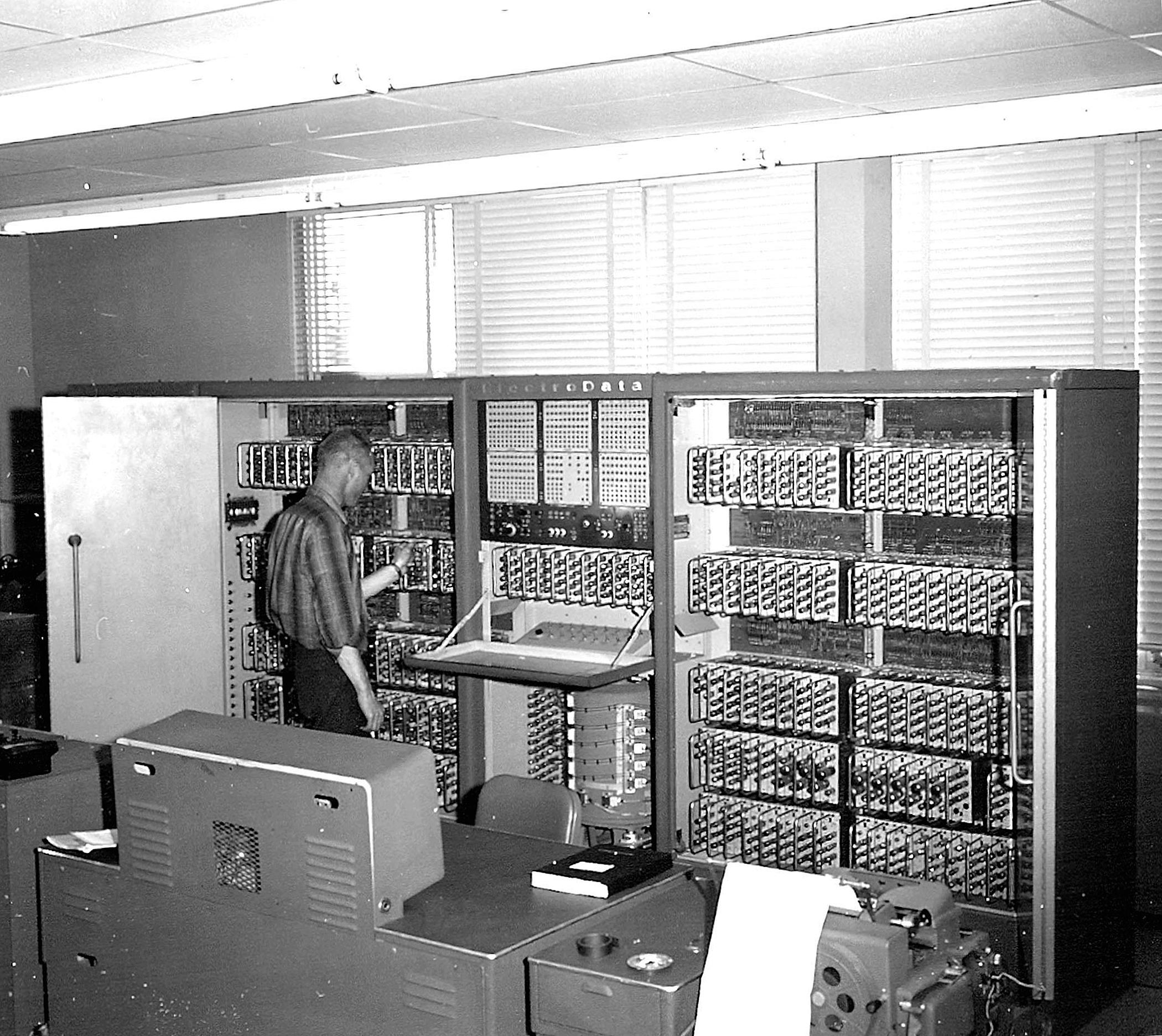 ElectroData Datarton-205 computer system at the USGS